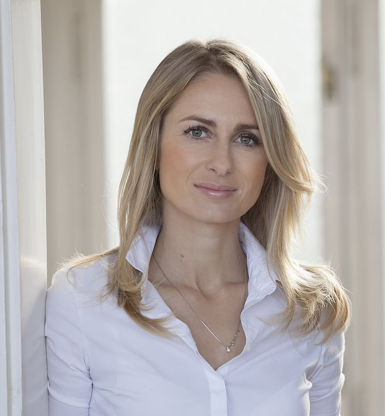 Dita Charanzová, Member of the European Parliament